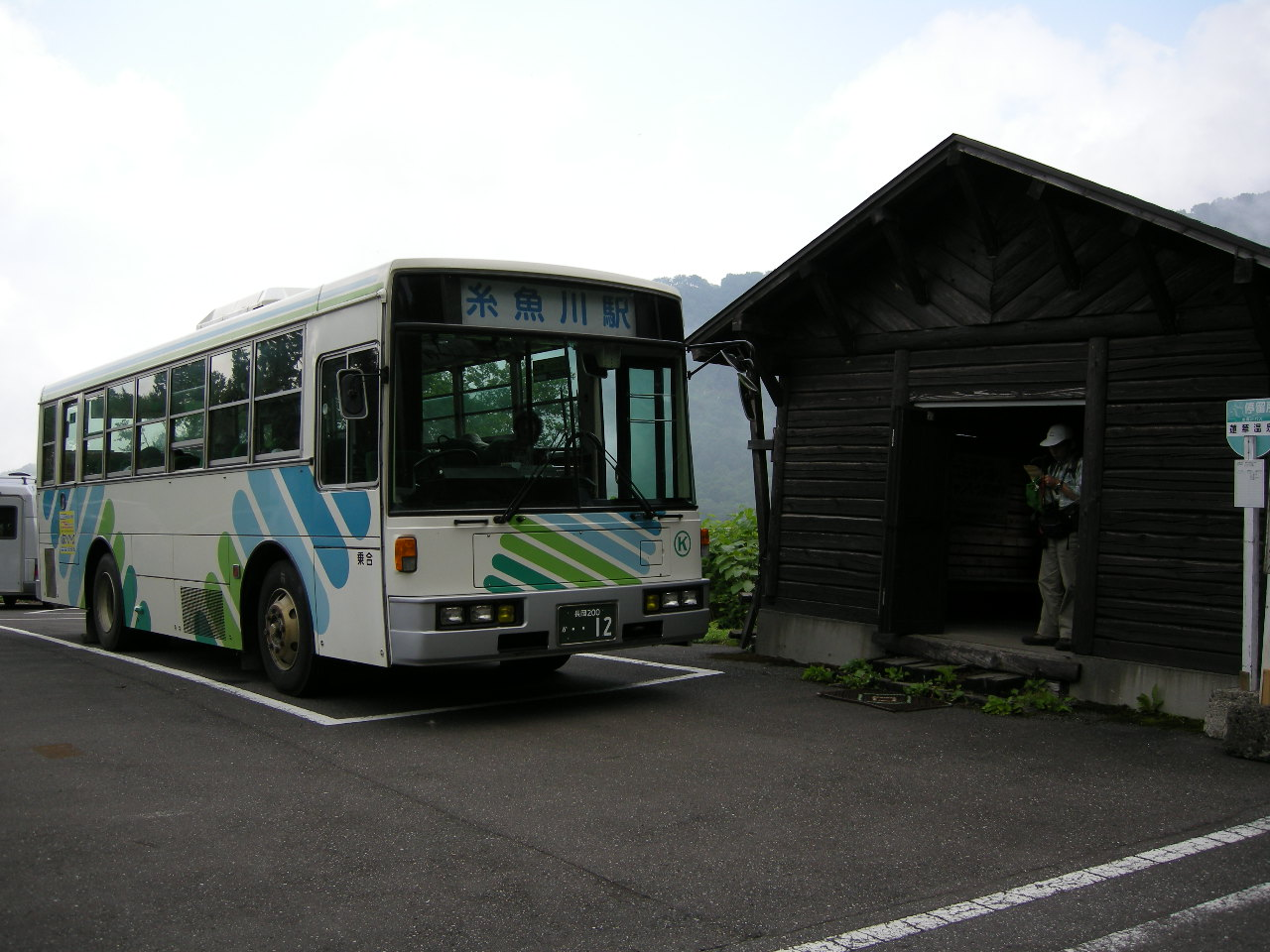 Renge-onsen bus stop,Itoigawa city